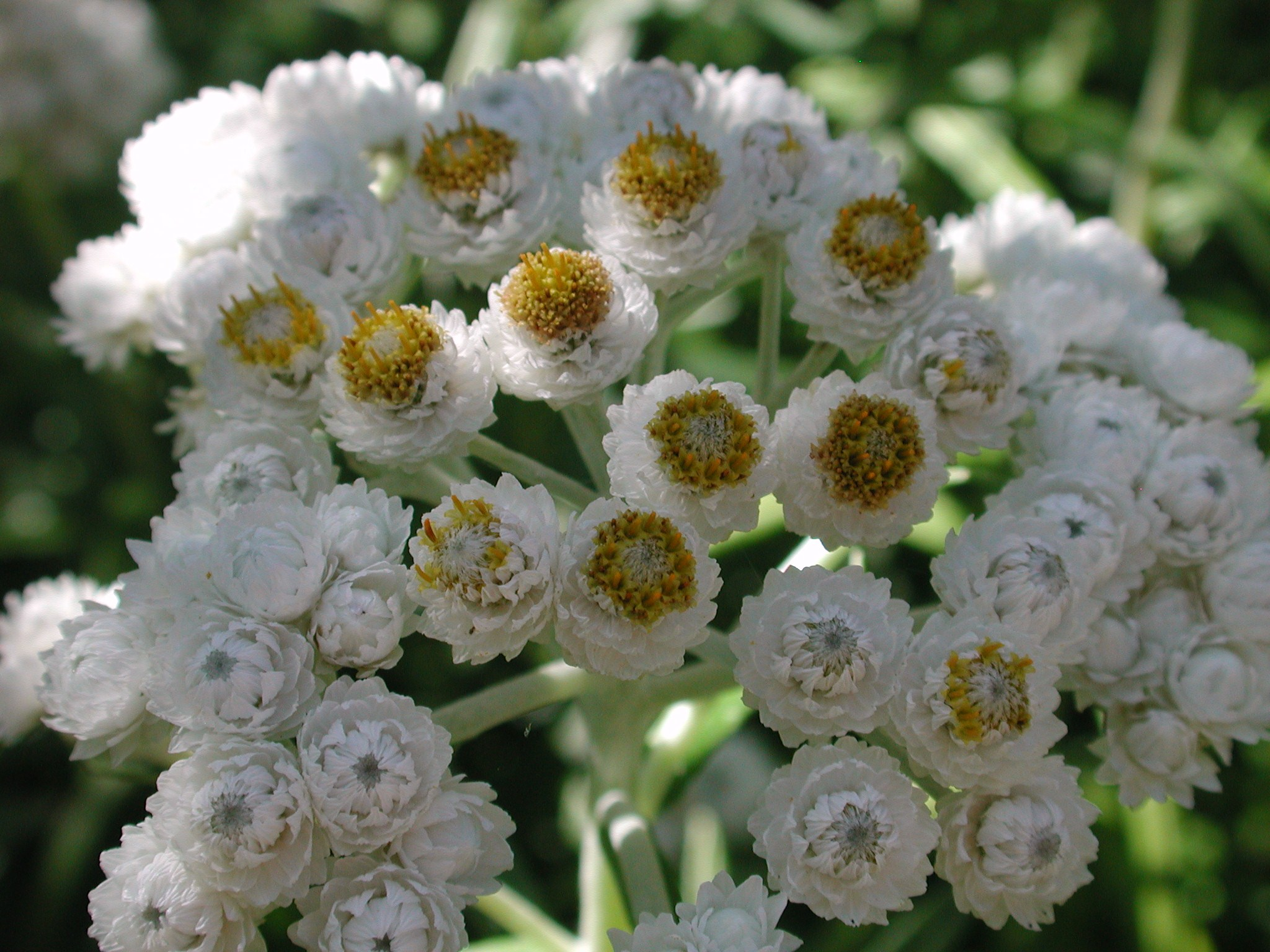 Flowers of pearly everlasting Anaphalis margaritacea, photographed at Orcas Island, WA, USA.